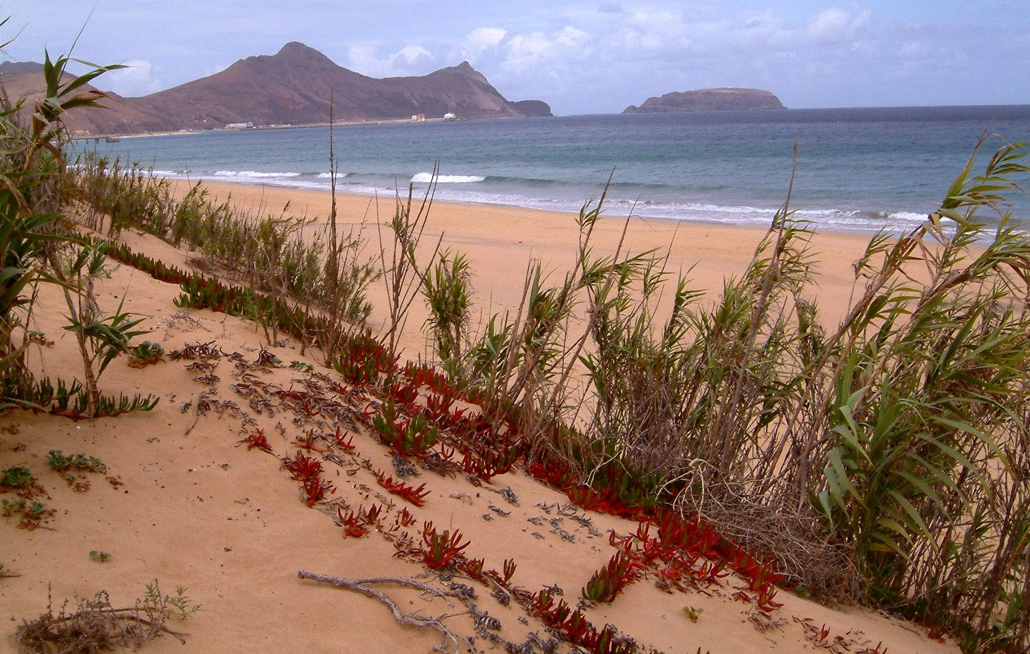 Porto_santo_strand_5-2007. Photograph: Peggy